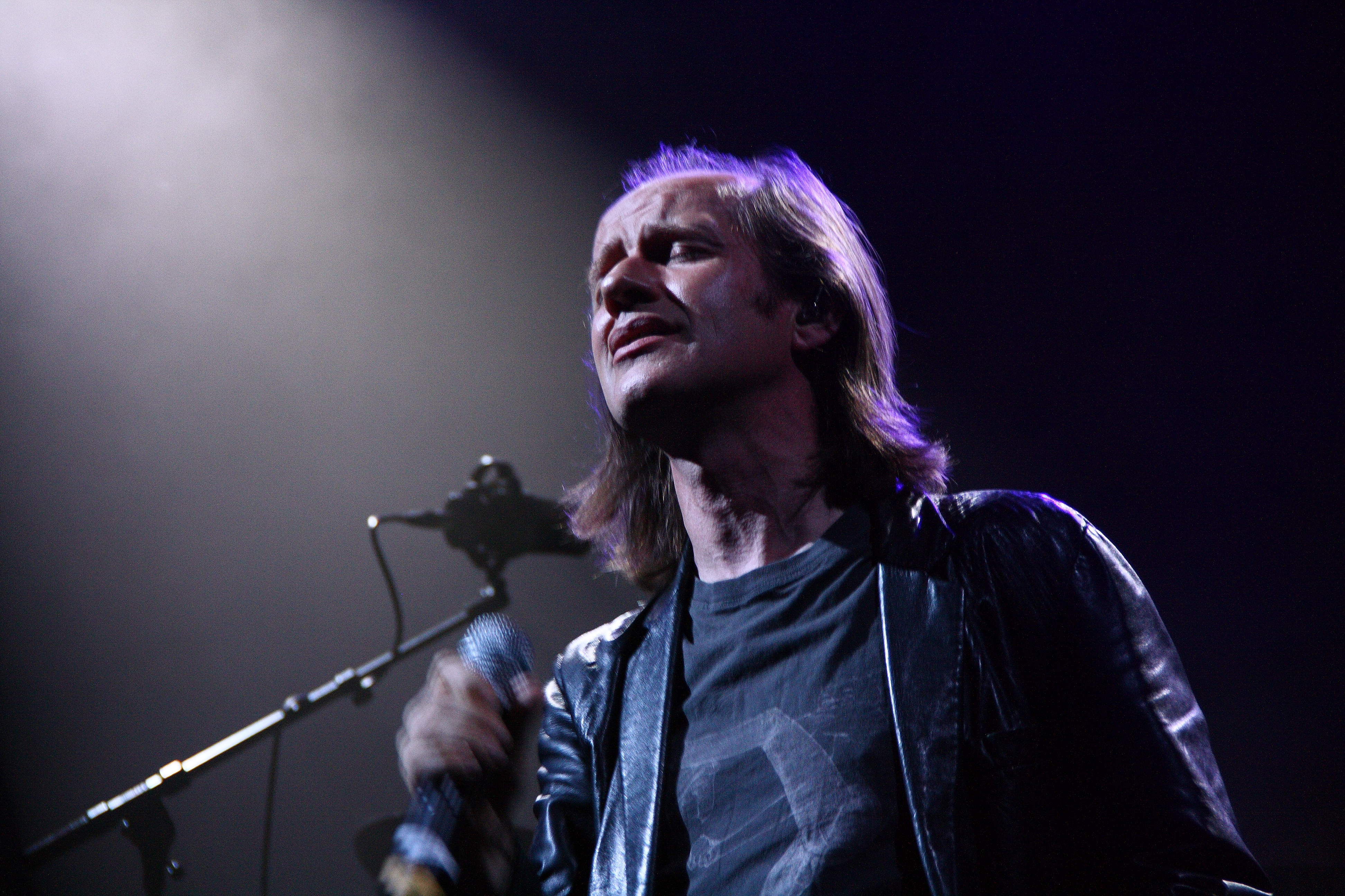 Iarla Ó Lionáird with Afro Celt Soundsystem at TFF.Rudolstadt 2010